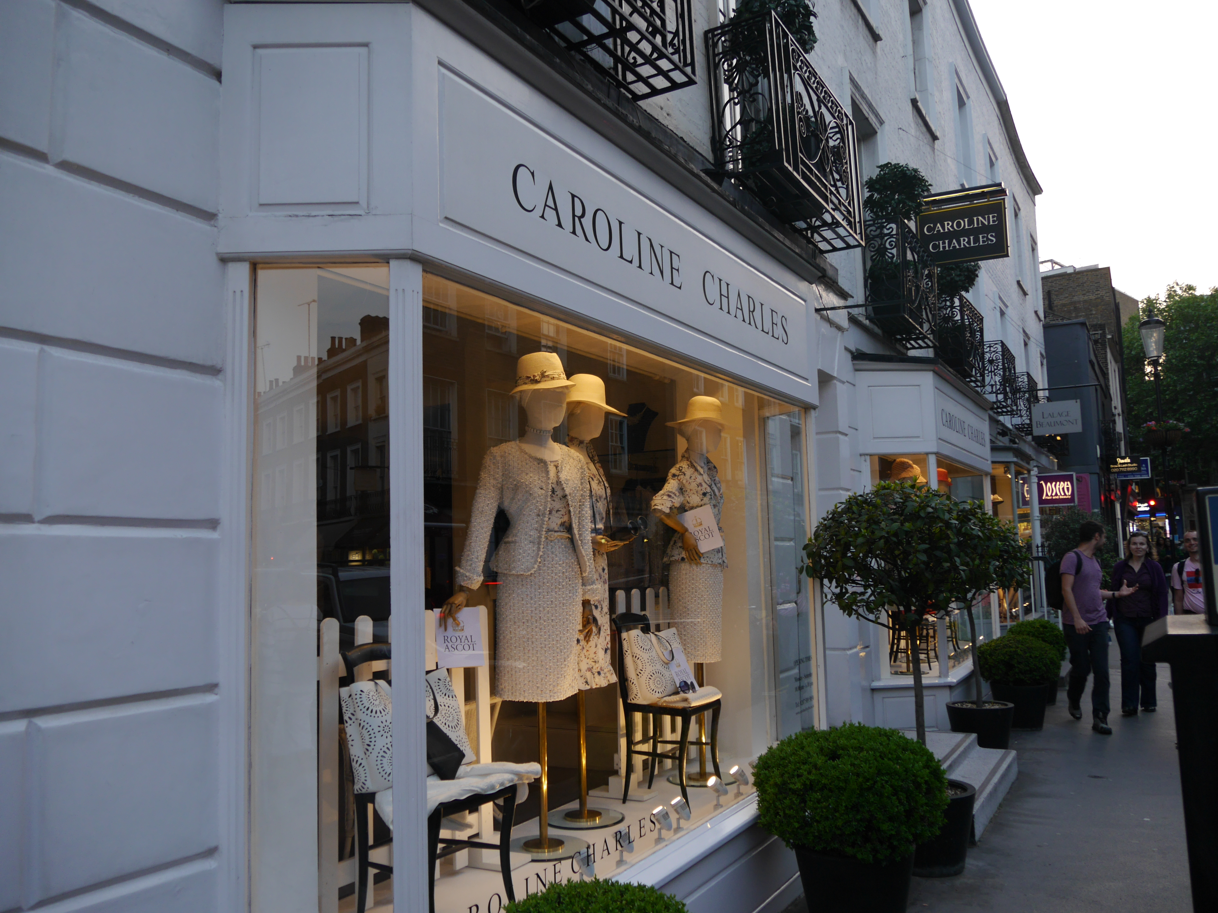 Beauchamp Place, London, June 2016